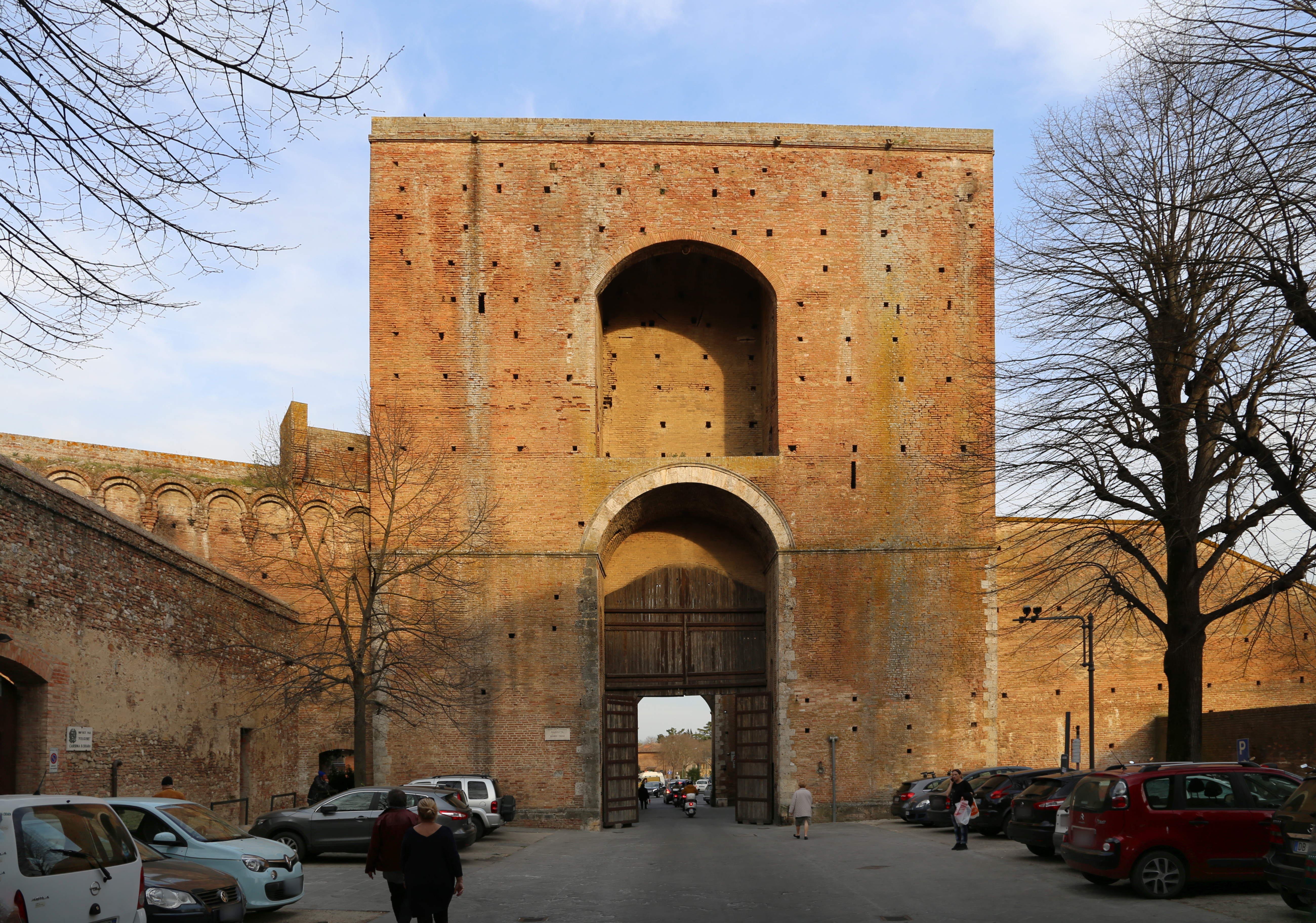 Porta Pispini